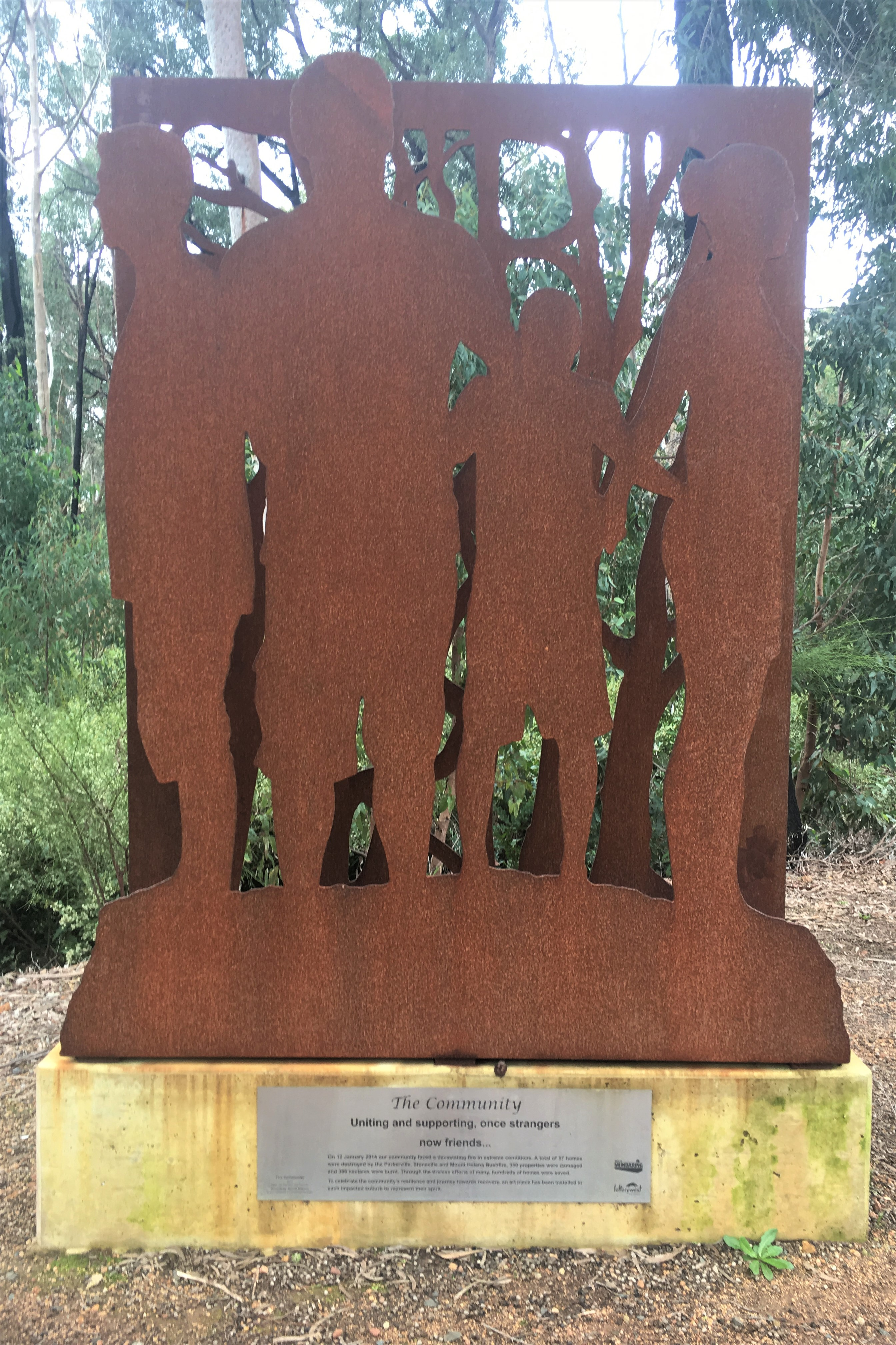 The Community 2016: Uniting and Supporting, once strangers now friends... Laser Cut mild Steel and concrete designed by Melinda Brezmen to commemorate a community's strength Located on the Railway Reserves Heritage Trail, Stoneville, Western Australia